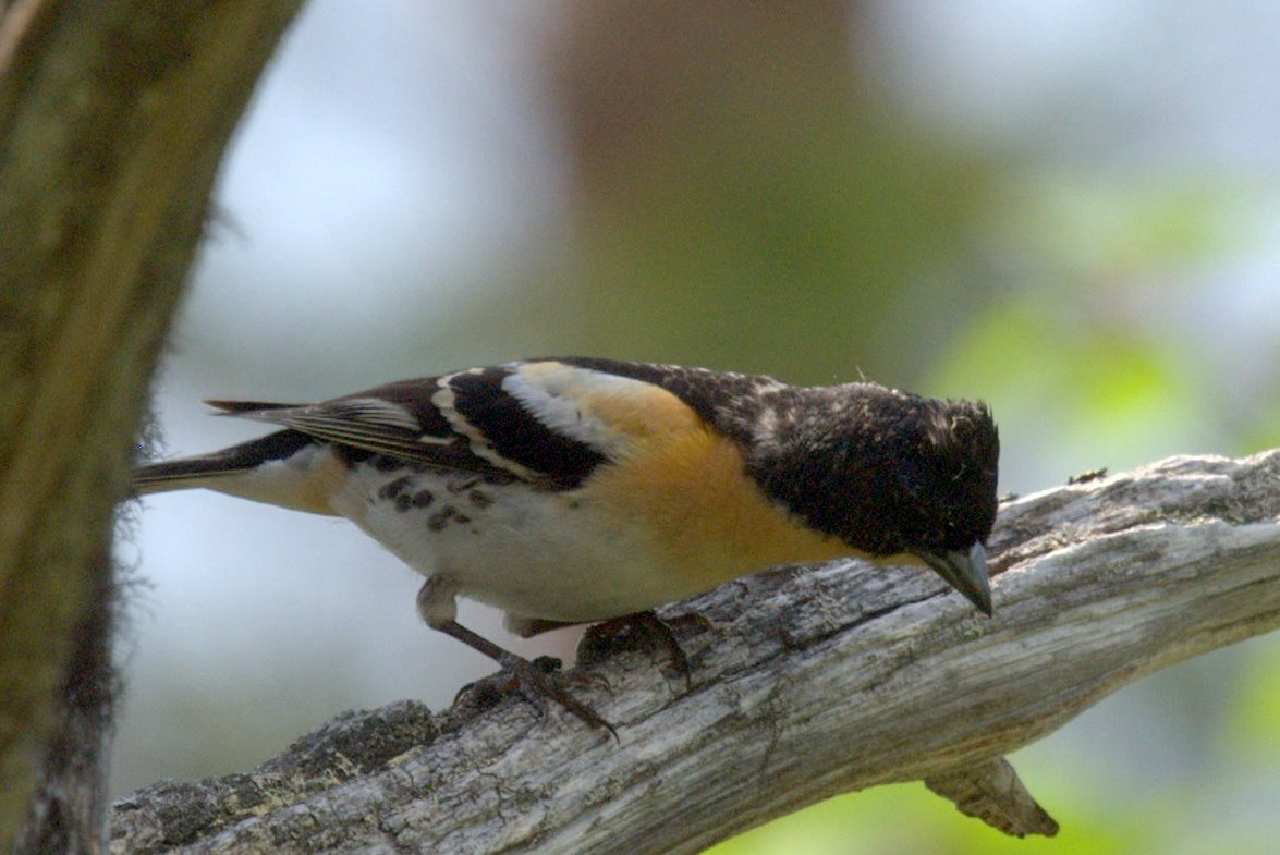 Brambling